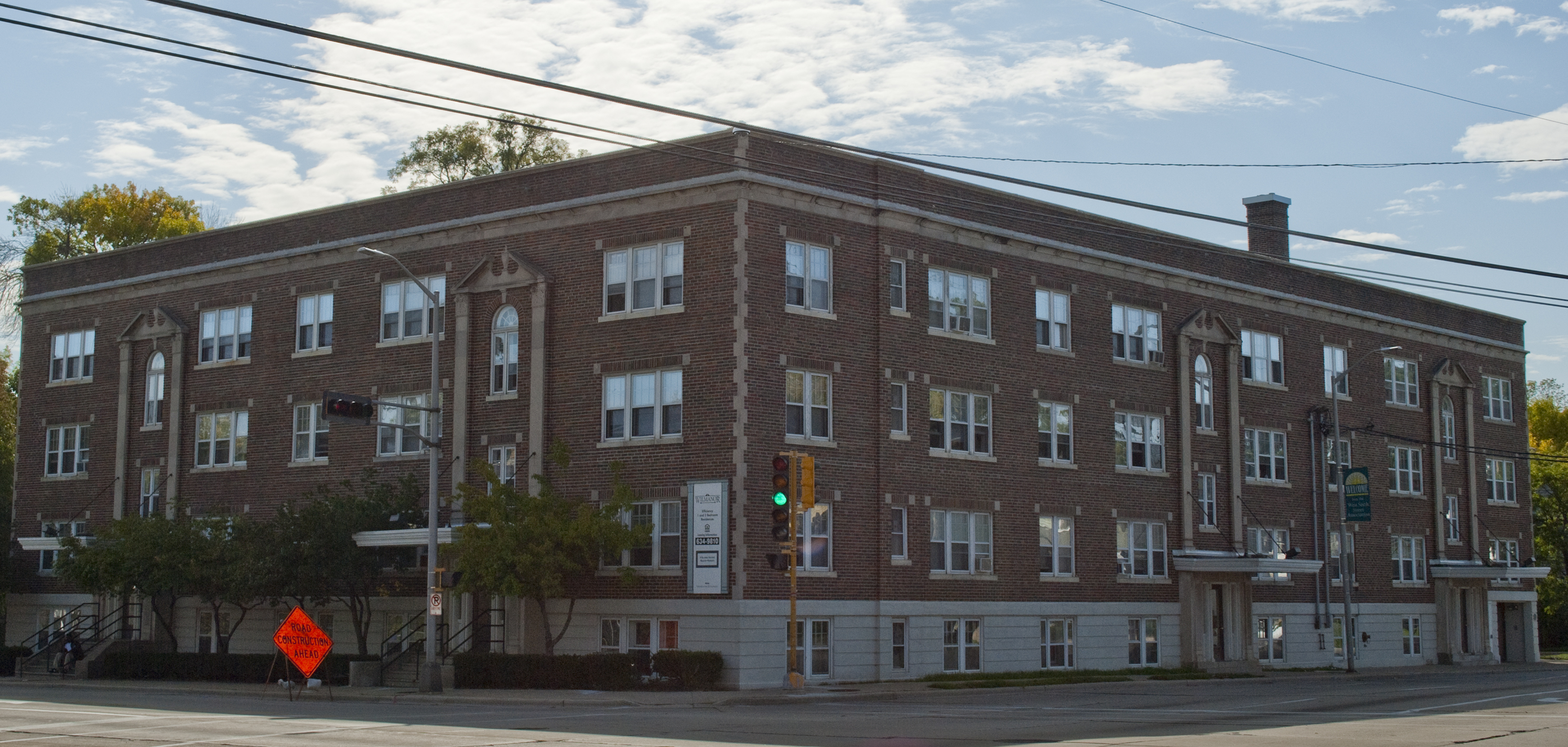 Peter Johnson House